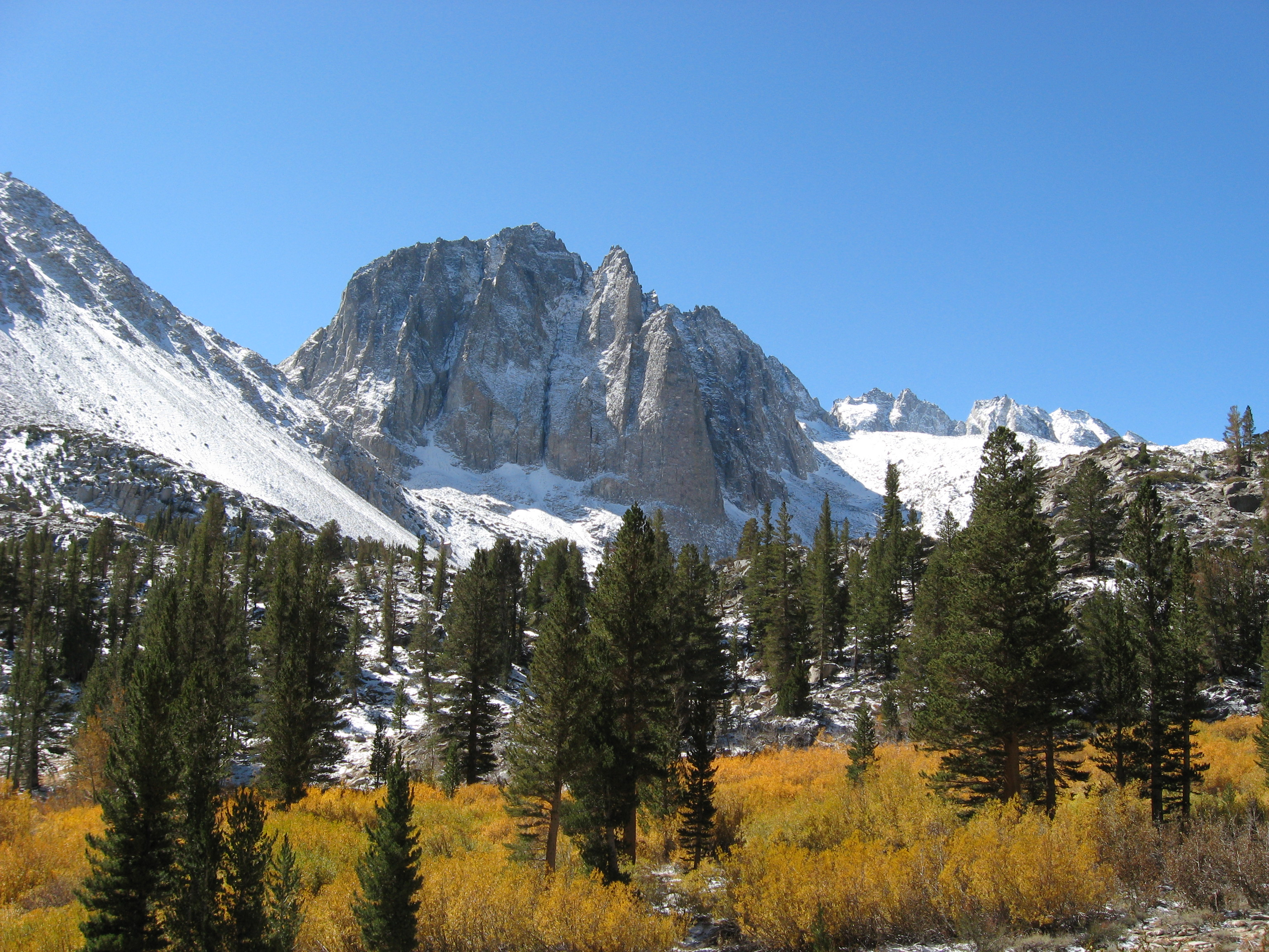 Temple Crag, seen from the Big Pine Lakes region to the north.